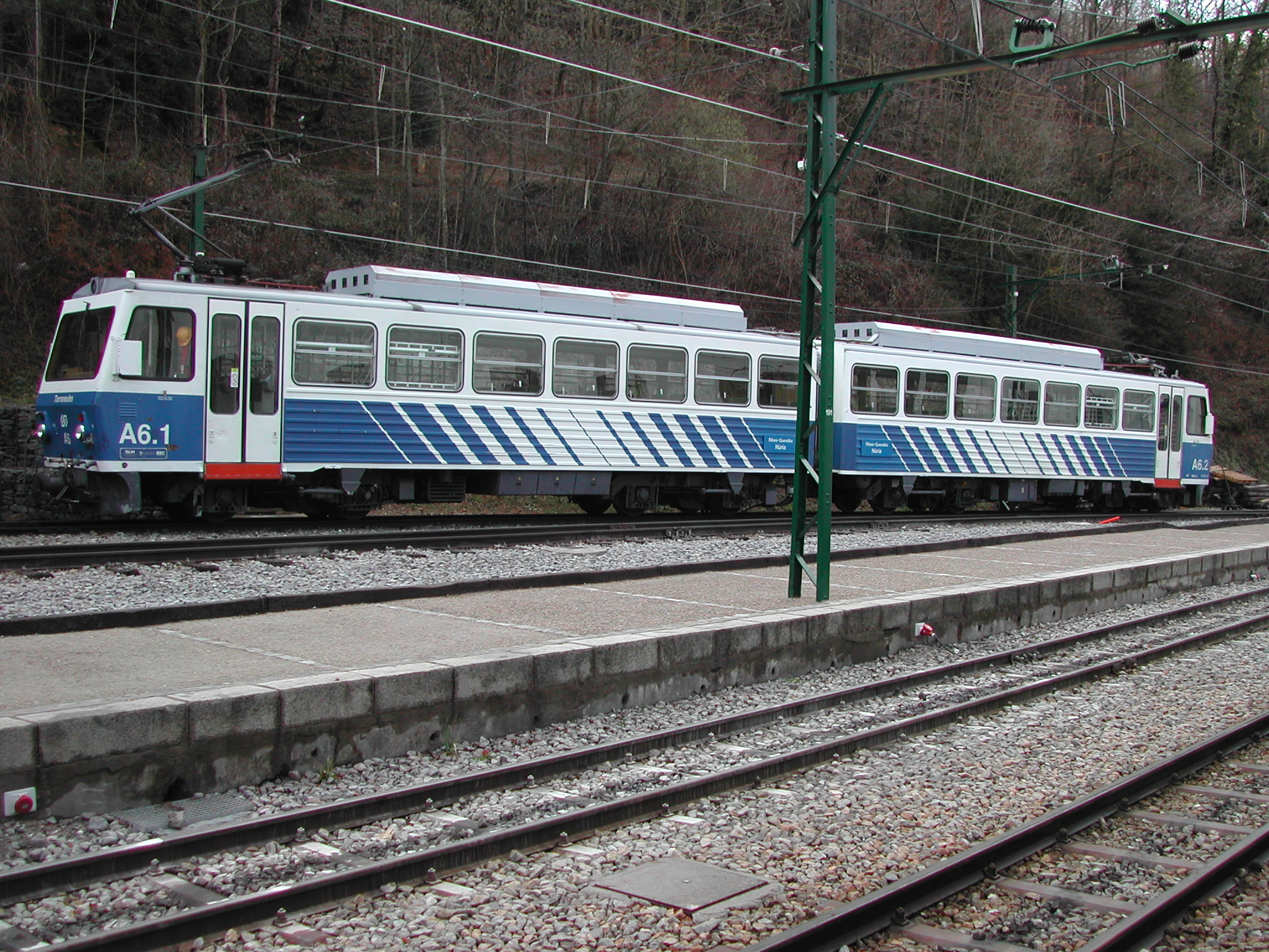 Cog railway convoy.